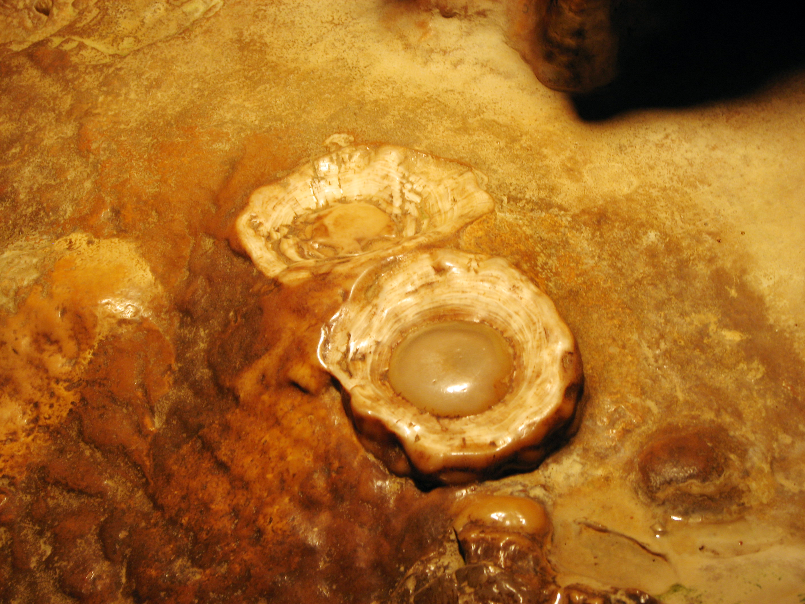 Luray Caverns